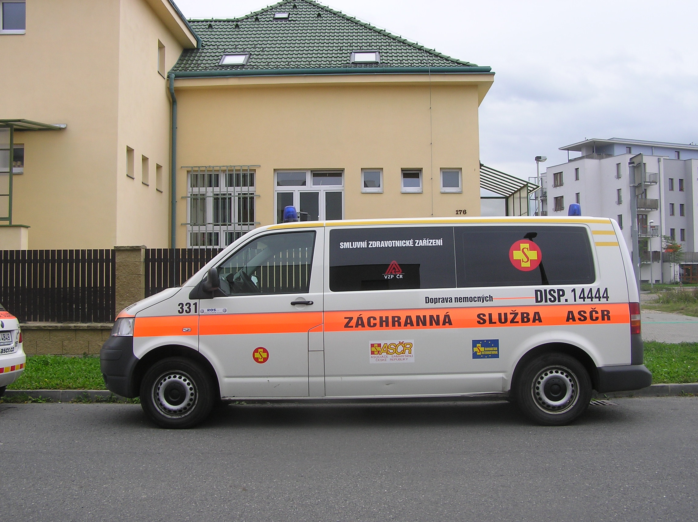 Ambulance vehicle of the Association of the Samaritans of the Czech Republic, Prague 5 - Zbraslav